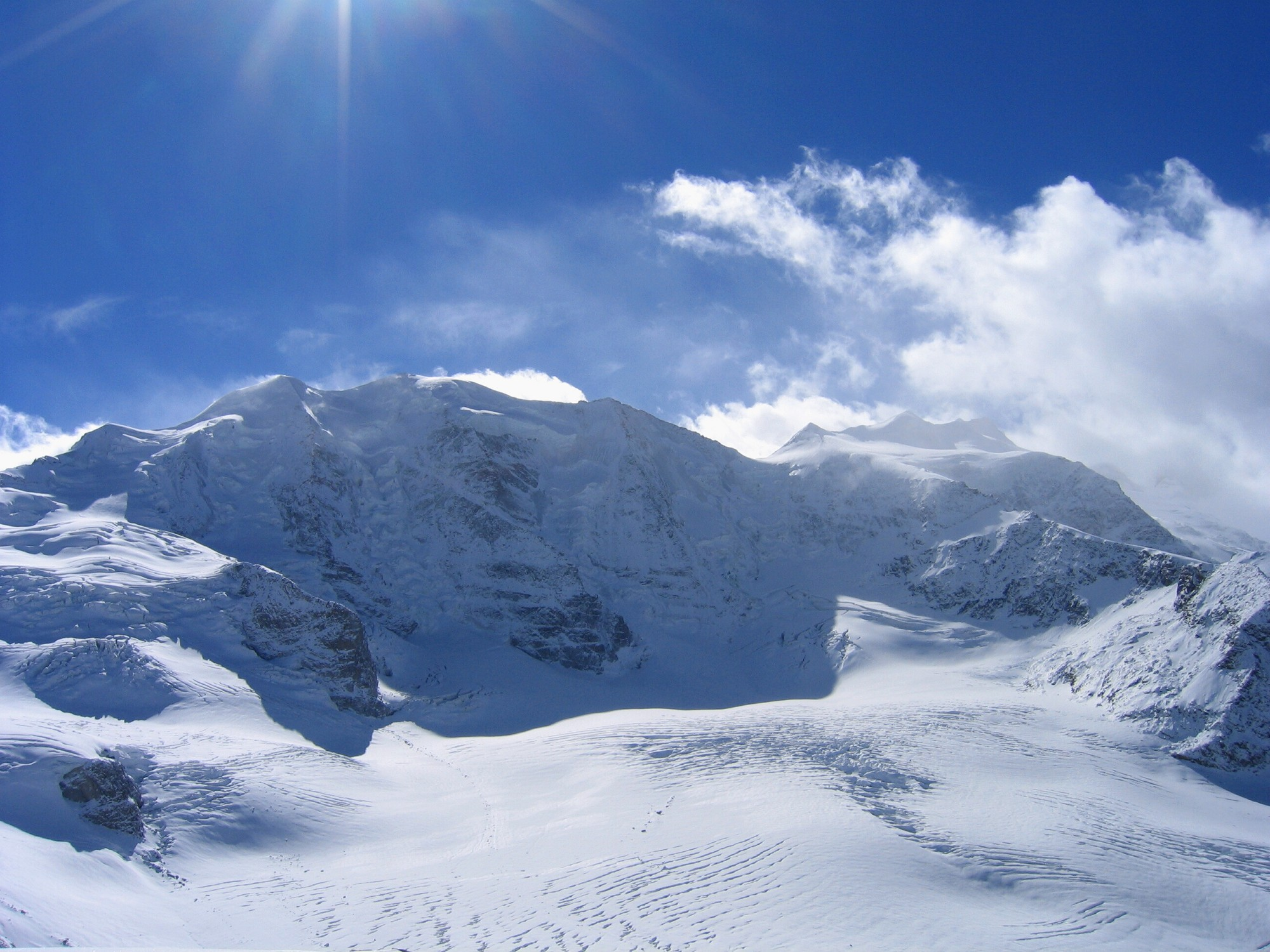 Piz Palü (to the left), Bellavista (to the right), Persgletscher, in the Alps of Graubünden. Shot was taken from: Diavolezza